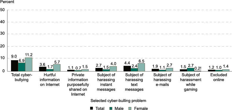 Percentage of students ages 12–18 who reported being cyber-bullied anywhere during the school year, by selected cyber-bullying problems and sex: 2011 ! Interpret data with caution. The coefficient of variation (CV) for this estimate is between 30 and 50 percent. NOTE: "Cyber-bullying" includes students who responded that another student had posted hurtful information about them on the Internet; purpose- fully shared private information about them on the Internet; harassed them via instant messaging; harassed them via Short Message Service (SMS) text messaging; harassed them via e-mail; harassed them while gaming; or excluded them online. Cyber-bullying types do not sum to total because students could have experienced more than one type of cyber-bullying. SOURCE: U.S. Department of Justice, Bureau of Justice Statistics, School Crime Supplement (SCS) to the National Crime Victimization Survey, 2011.